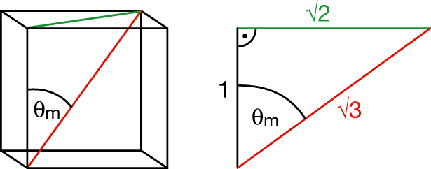 The magic angle is the angle between the space diagonal of a cube and its connecting edges. Image licensed under .